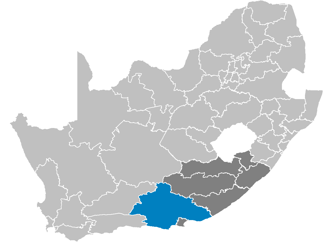 Map showing the Cacadu District Municipality higlighted within Eastern Cape.